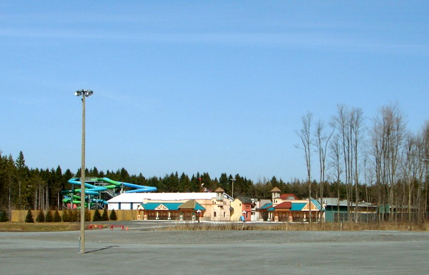 Calypso Waterpark (under construction), Limoges, Ontario, Canada